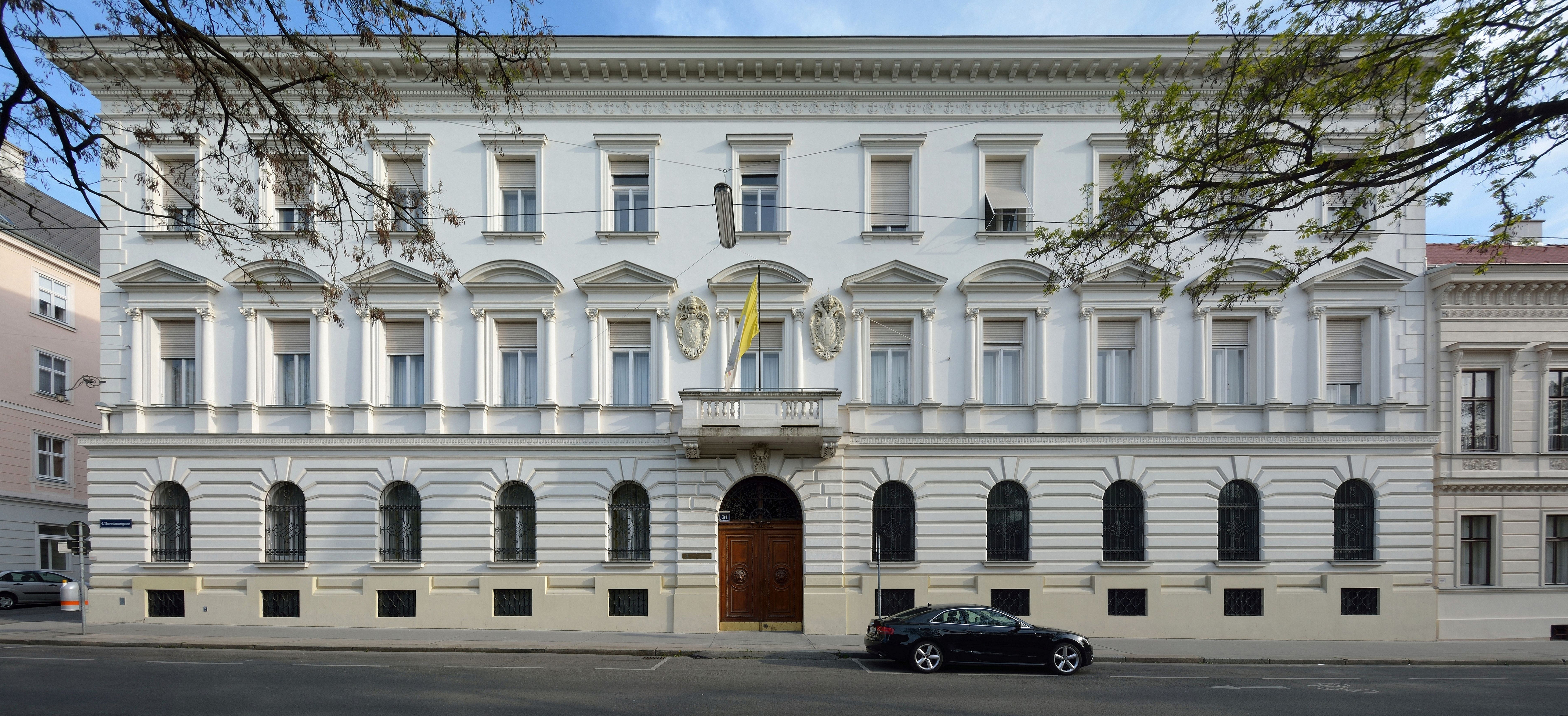 Palace of the Apostolic Nunciature, Theresianumgasse 31, 4th district of Vienna